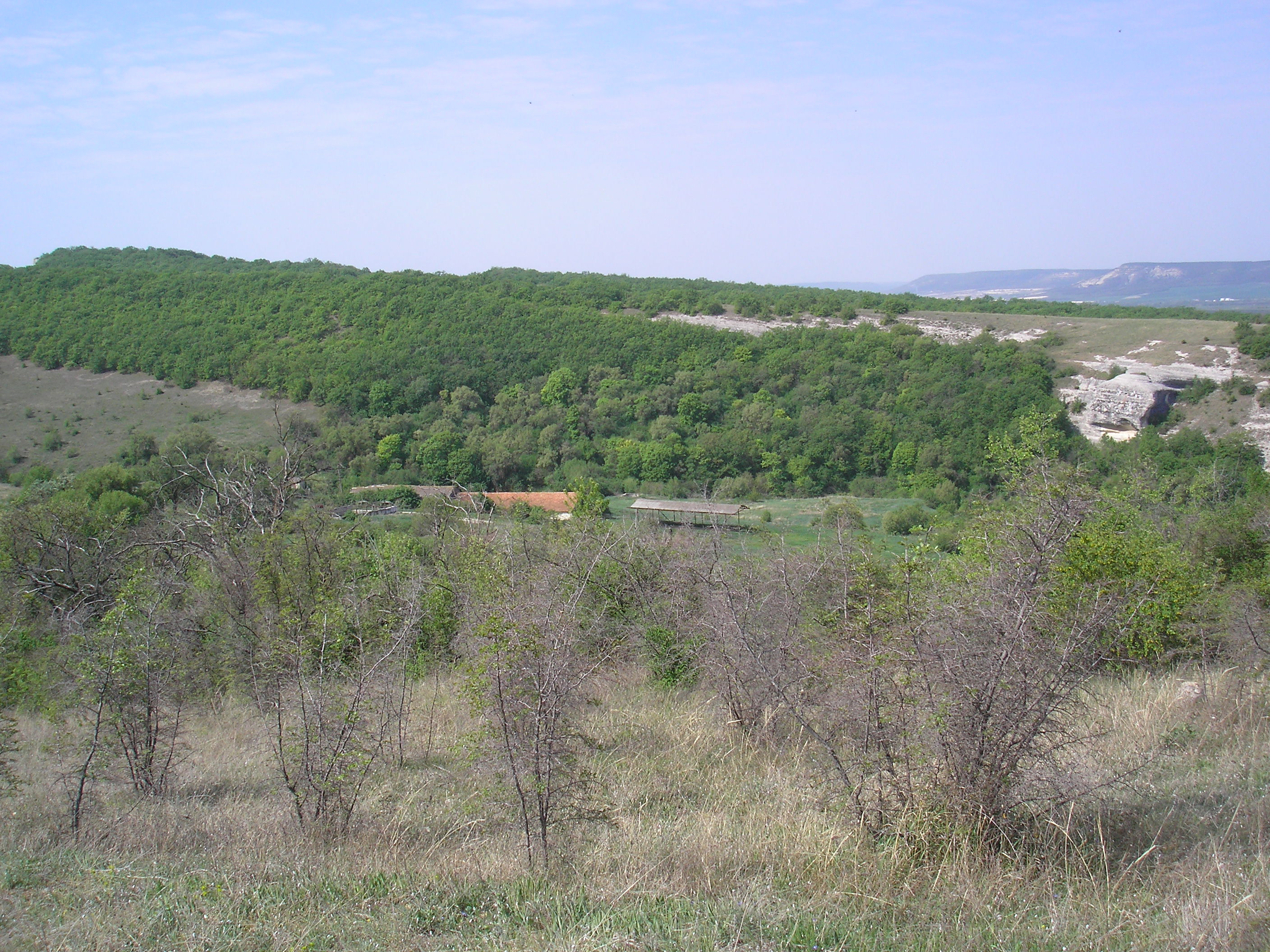 Location of the disappeared village of Alyoshino, Bakhchisaray district, Crimea